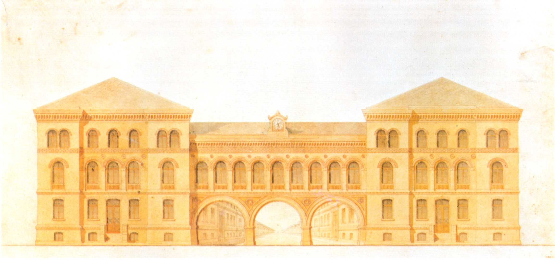 Berlin - Anhalter Güterbahnhof, elevation by Franz Schwechten